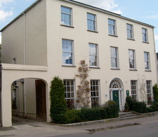 Kilbrogan House.